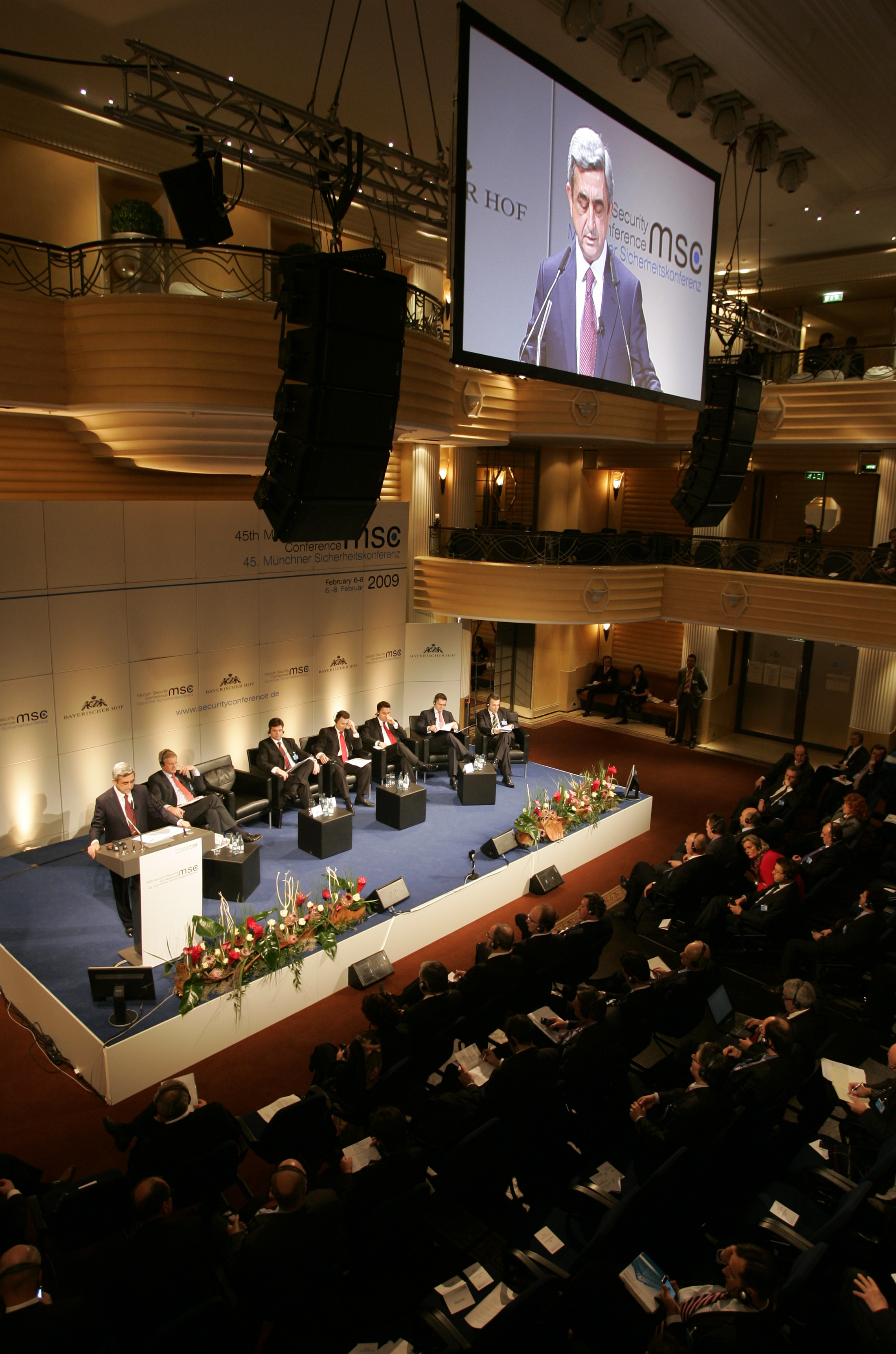 45th Munich Security Conference 2009: View into the conference hall.